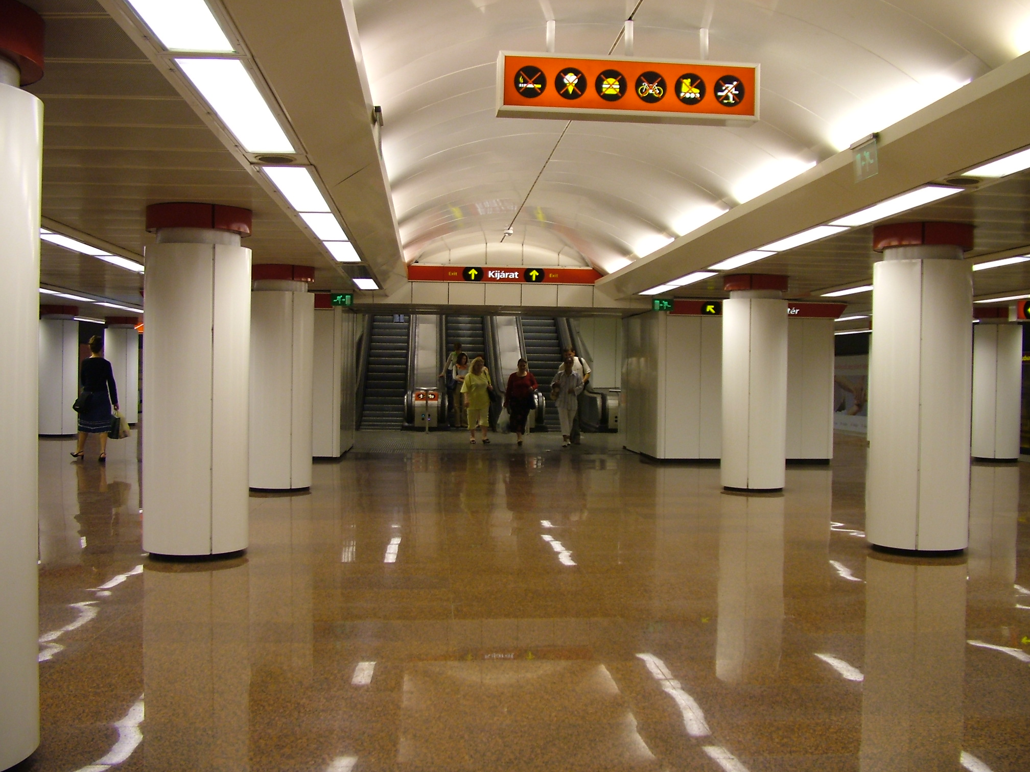 Kossuth Lajos square on Budapest metro line 2 See other pictures: metros.hu